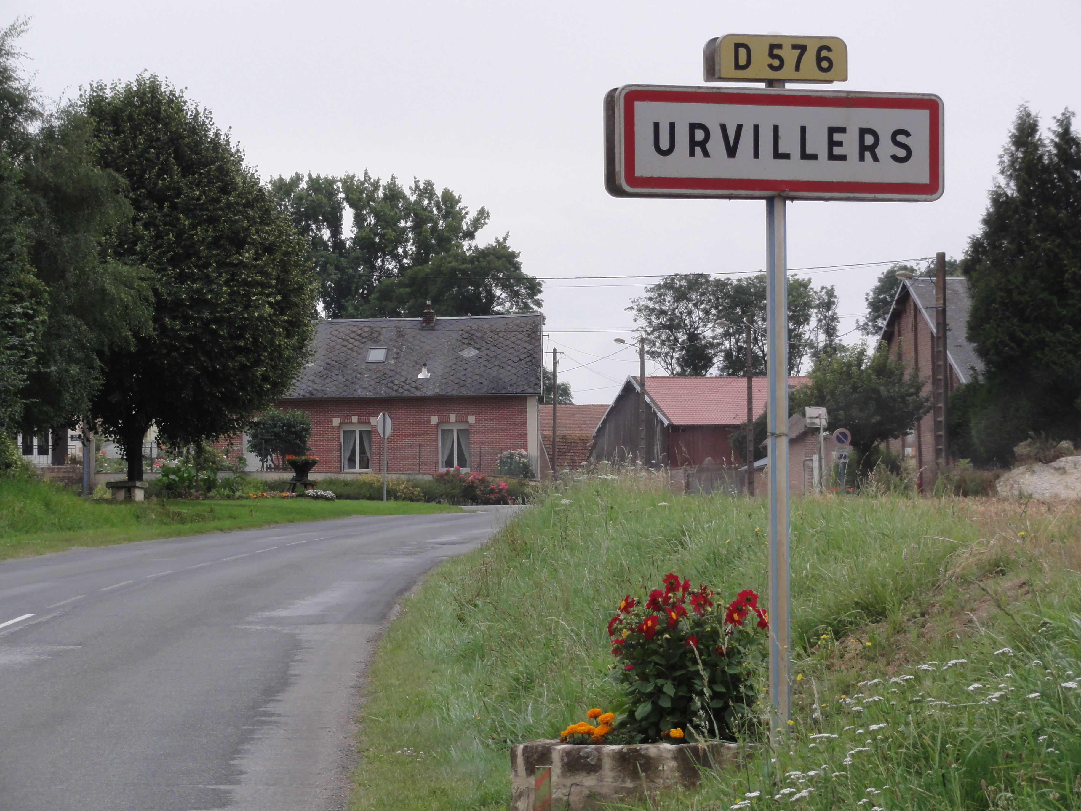 Urvillers (Aisne) city limit sign